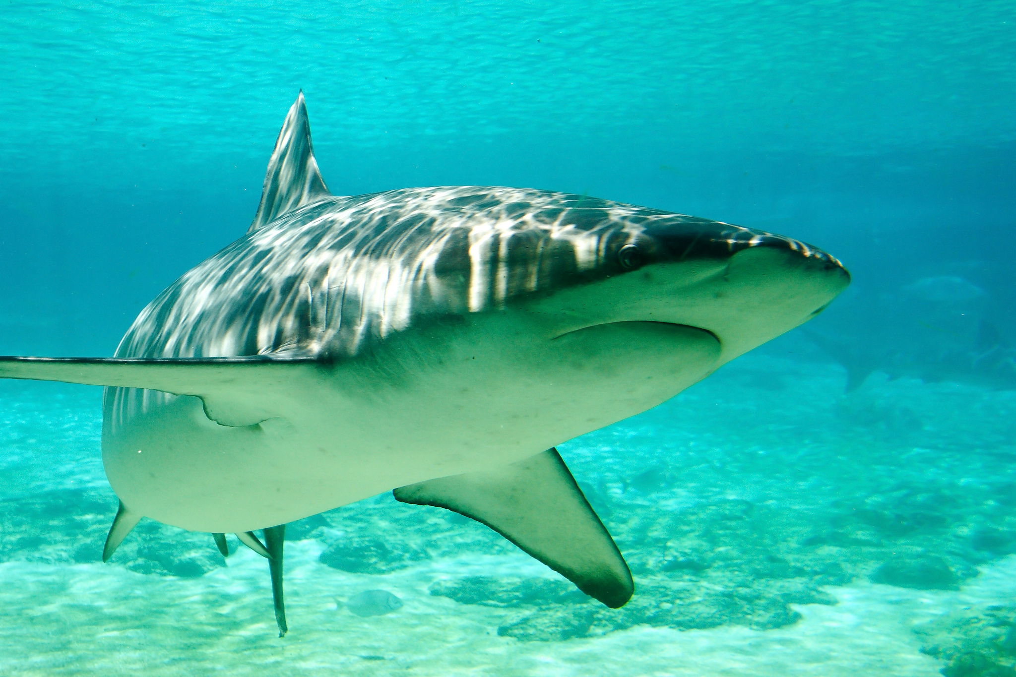 Dusky shark (Carcharhinus obscurus) at Sea World, Gold Coast, Australia